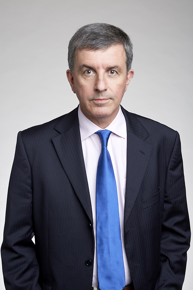 John David Sutherland (born 24 July 1962) is a British chemist at Medical Research Council (MRC), Laboratory of Molecular Biology (LMB), Protein & Nucleic Acid Chemistry Division. Attribution: The Royal Society